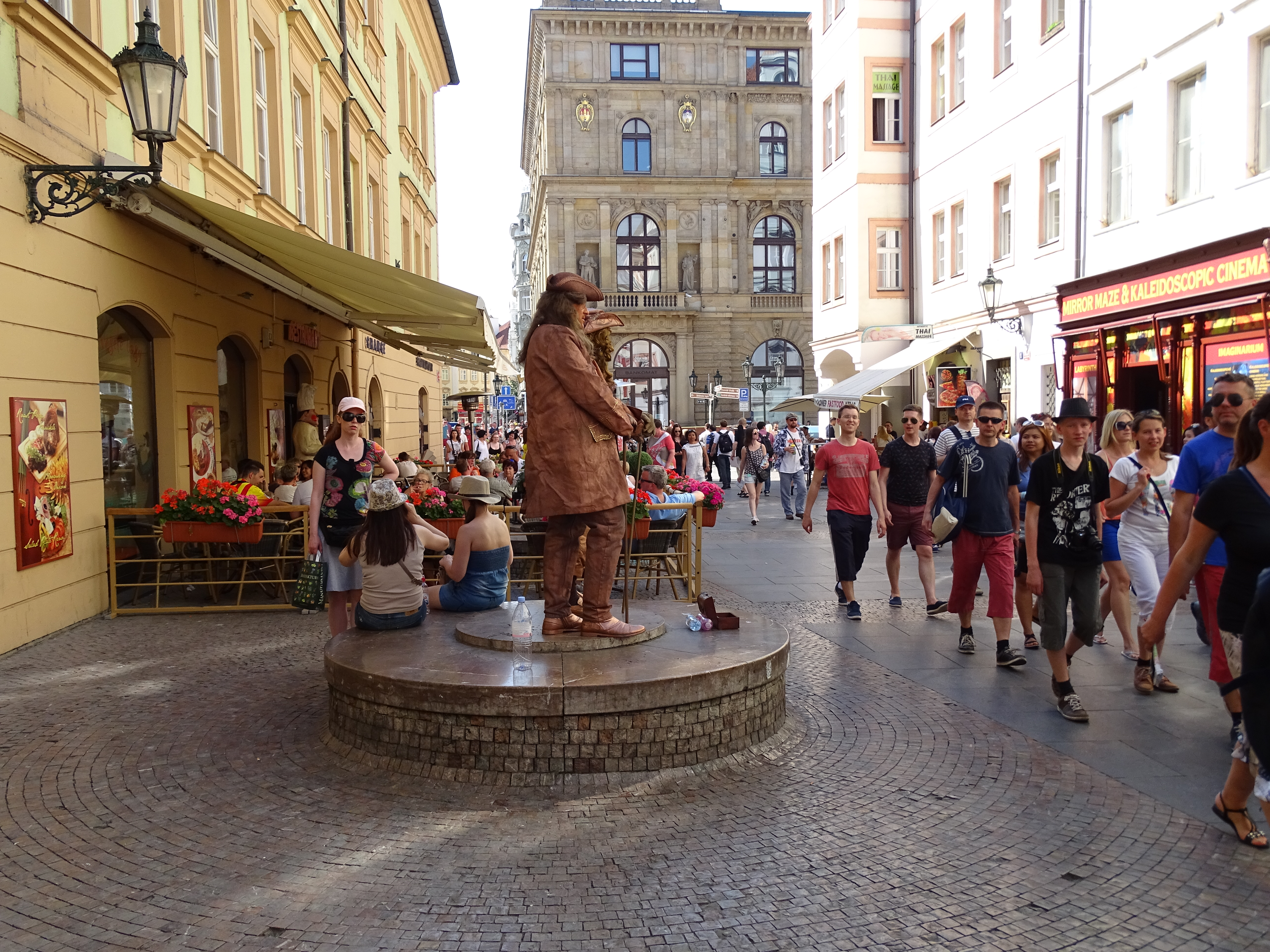 Prague-Old Town, Czech Republic. Na můstku street.